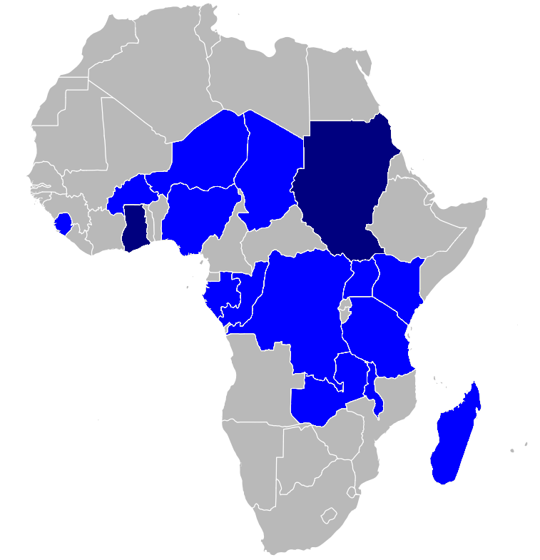 Map of Celtel coverage in Africa, countries not using the Celtel brand are in dark blue.